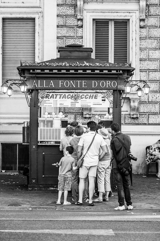 The kiosk "alla Fonte d'oro", where grattachecca is prepared. It is the oldest in Rome, quenching Romans and tourists since 1913.